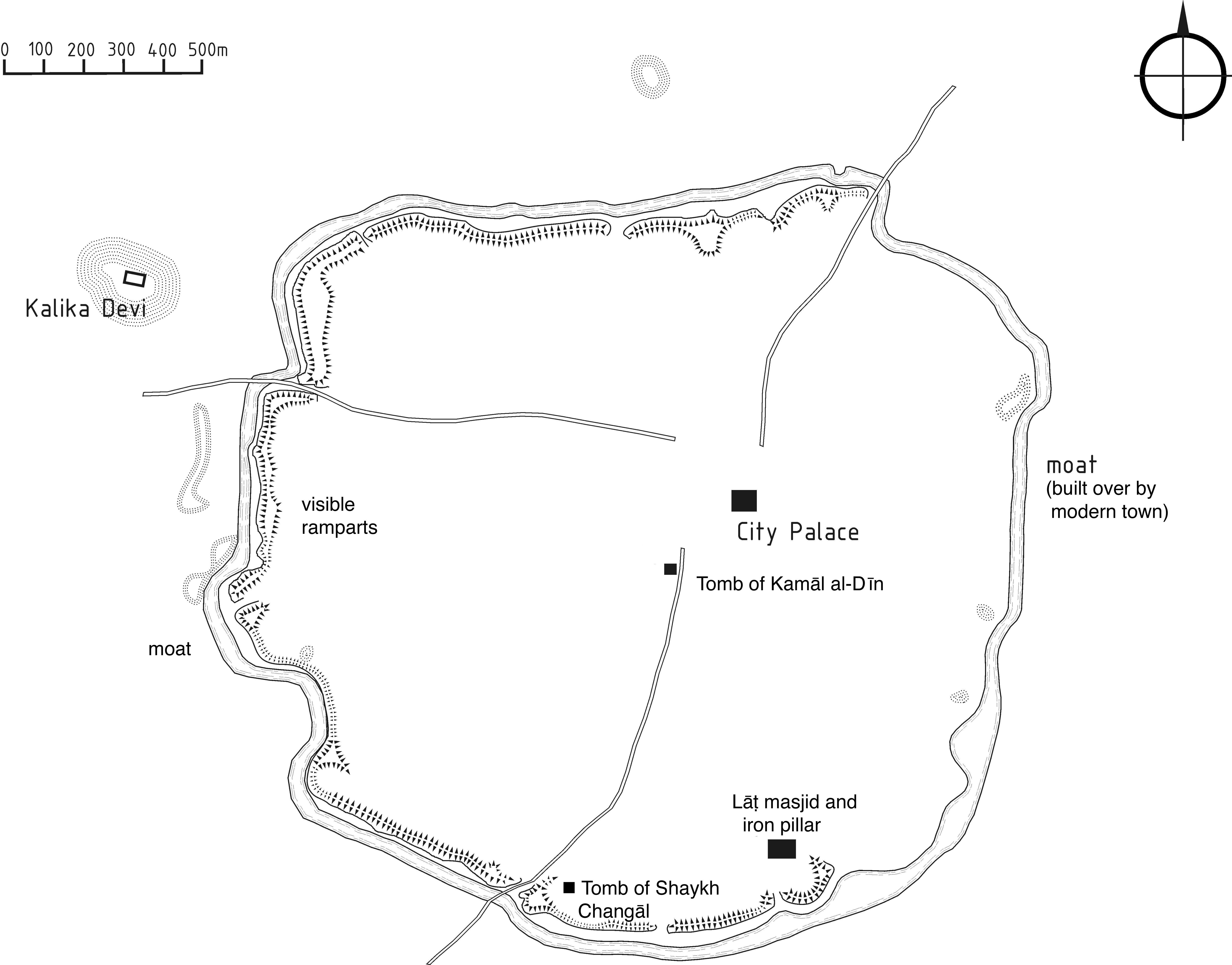 Plan of the historic parts of the city of Dhar, Madhya Pradesh, India.